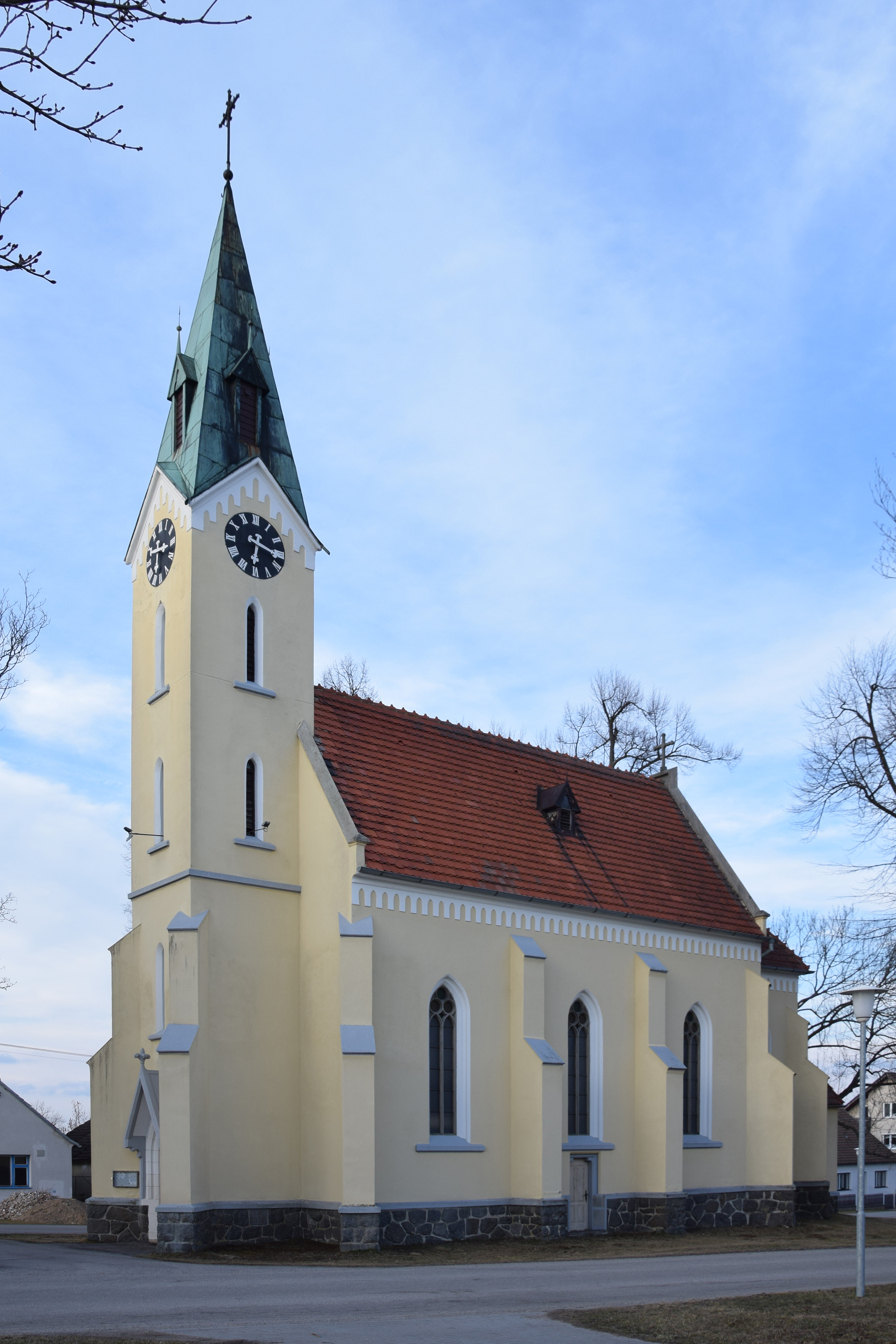 Saint Wenceslas Church in Vrábče, České Budějovice district, the Czech Republic.